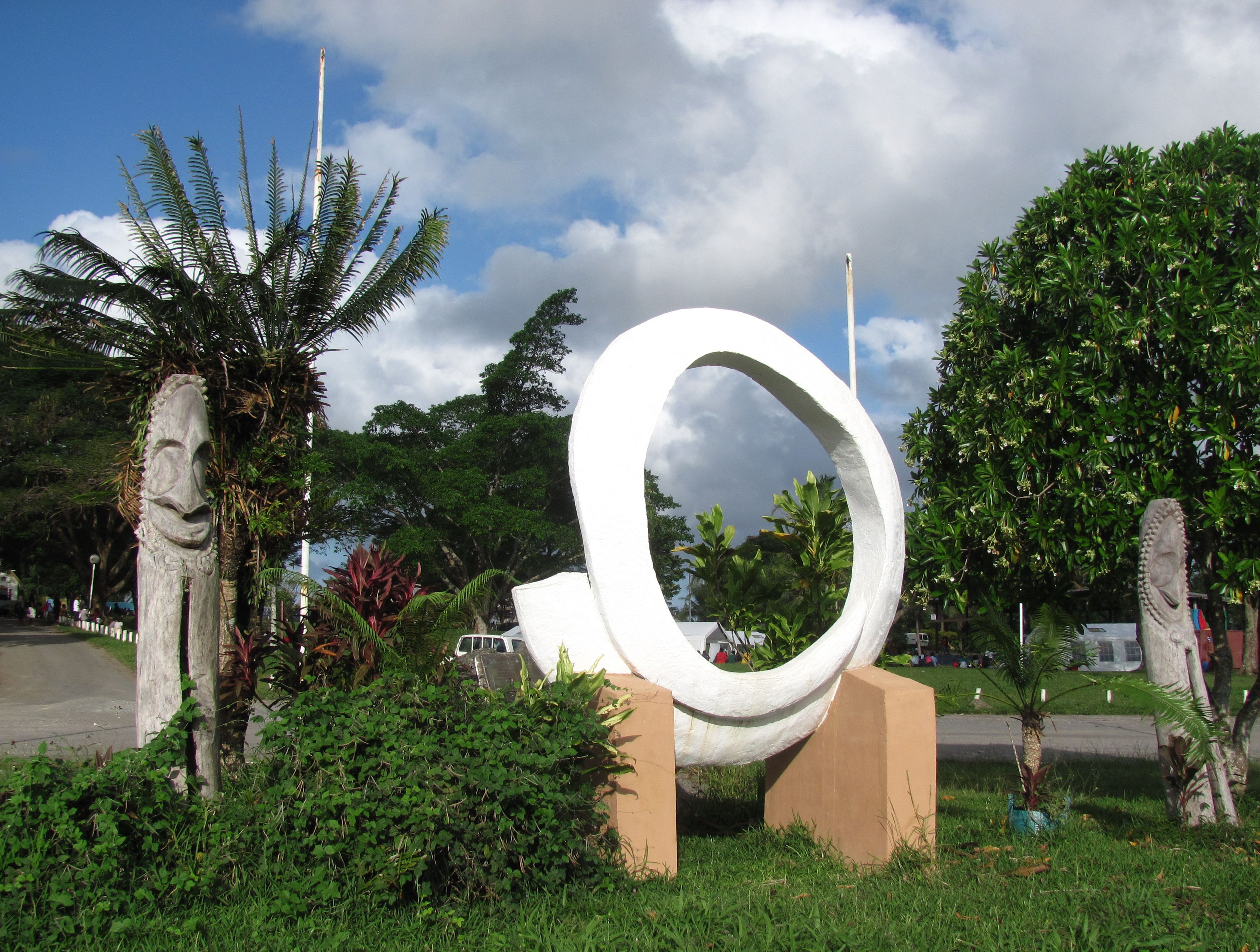 Memorial in front of the Parliament, Port Vila, Vanuatu